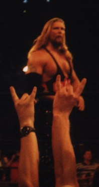 Kevin Nash during a taping of WCW Monday Nitro from Minneapolis, Minnesota in 1998.